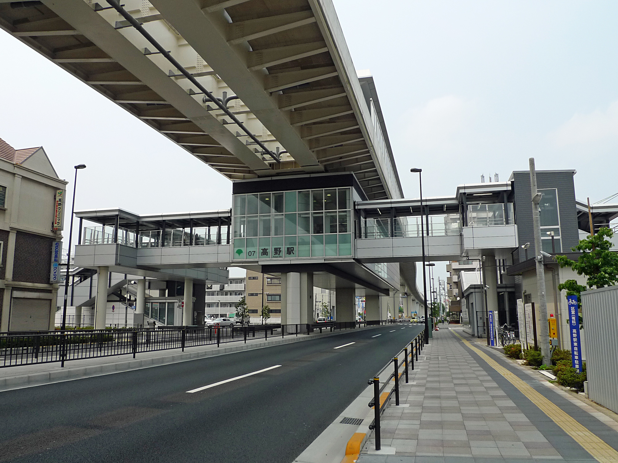 Koya station,Nippori Toneri Liner.